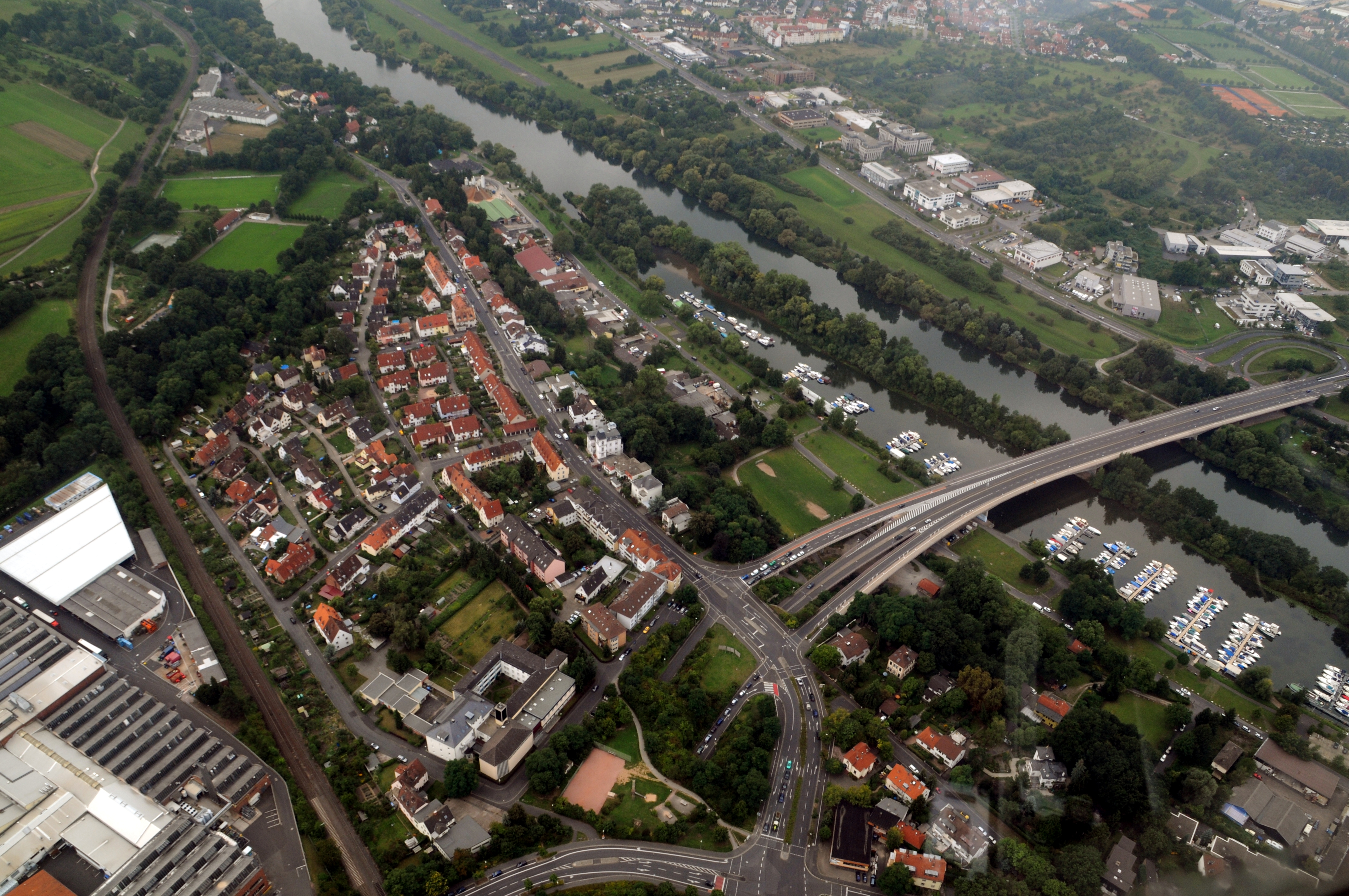 Aschaffenburg, Bavaria, Germany, aerial photograph